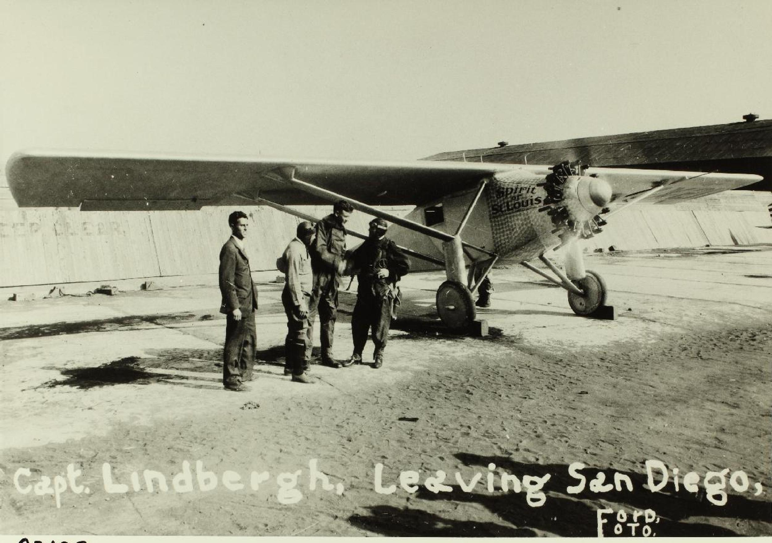 Catalog #: 04_02707 Album: 30 Description: At North Island, Rockwell Field. Group shot around Spirit just prior to flight to St. Louis. Lindbergh is in front. Date: May 10 1927 Ryan Neg .: 93122 Album Name: NYP Spirit Photos - Vol 3 Page Number: 7 Repository: San Diego Air and Space Museum Archive